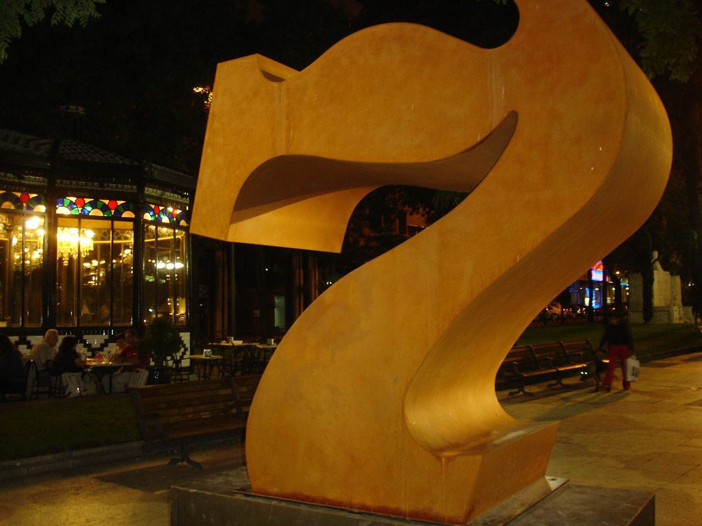 Sculpture of the number 7 by Robert Indiana.